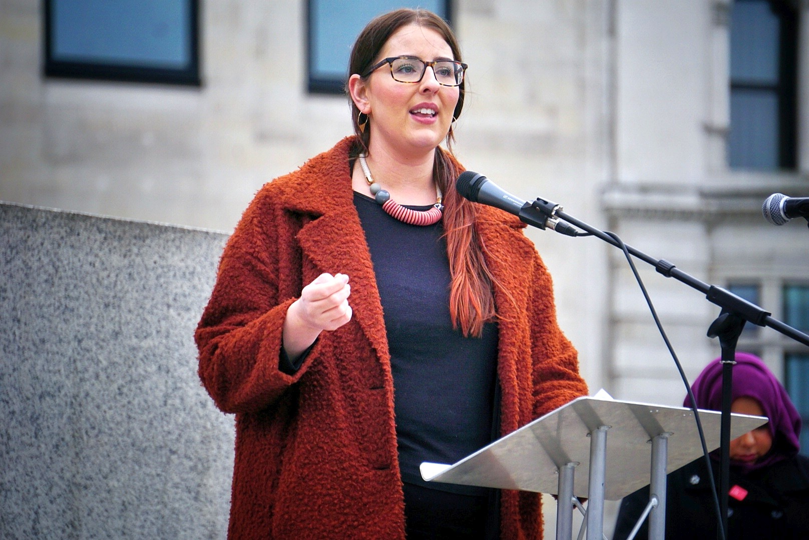 Photos taken at the Britain is Broken rally at London’s Trafalgar Square on Saturday 12th January 2019.